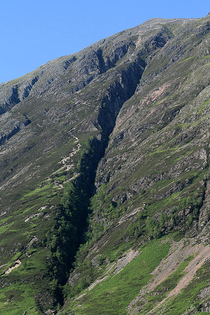 Clachaig Gully in Glen Coe This impressive gully is on the north side of the glen above the Clachaig Inn. The worn path on the west side of the gully is sometimes used as a Munro bagger's descent route from Sgorr nam Fiannaidh after the traverse of the Aonach Eagach ridge, but it is not recommended and several accidents have occurred here.